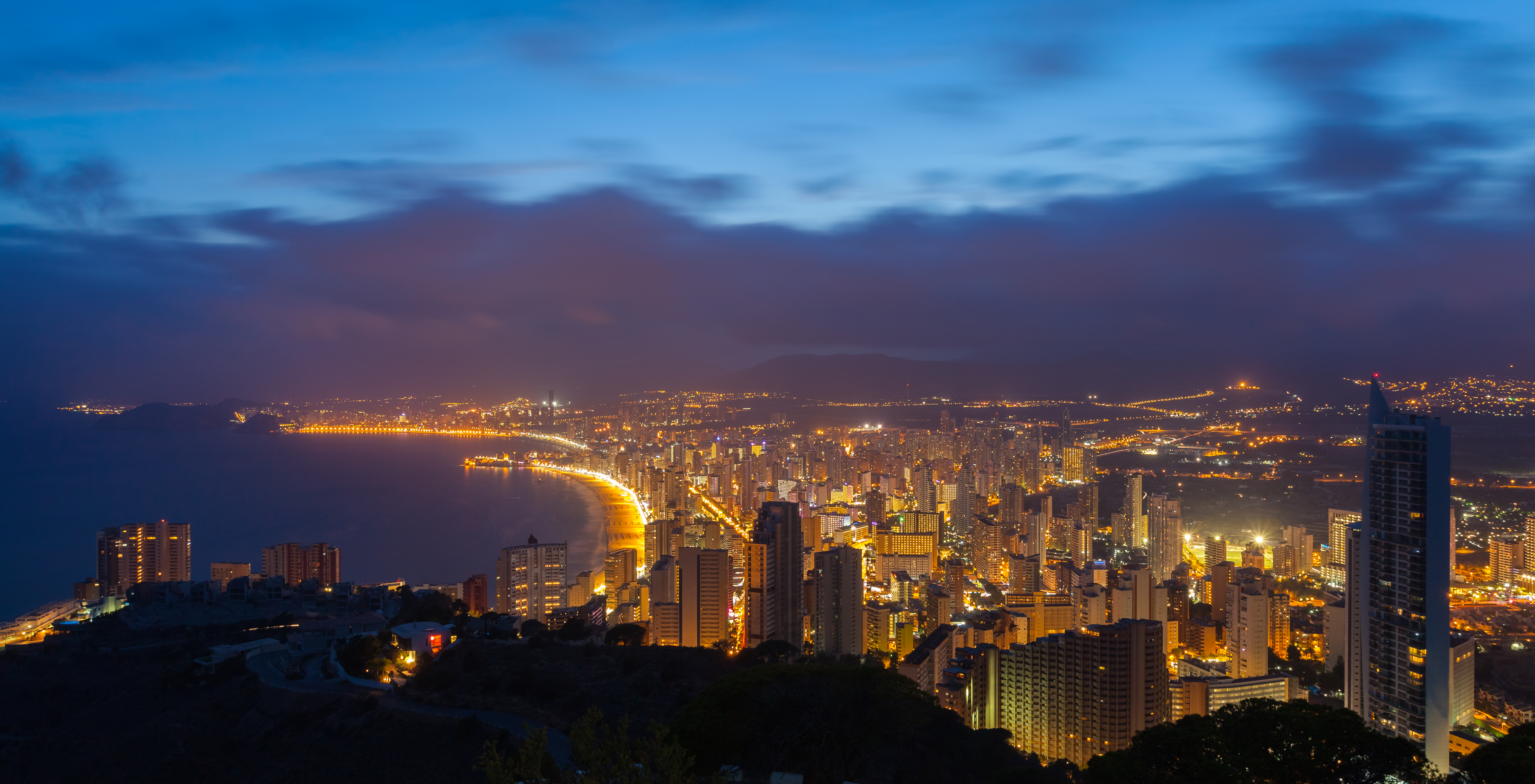 View of Benidorm, Spain